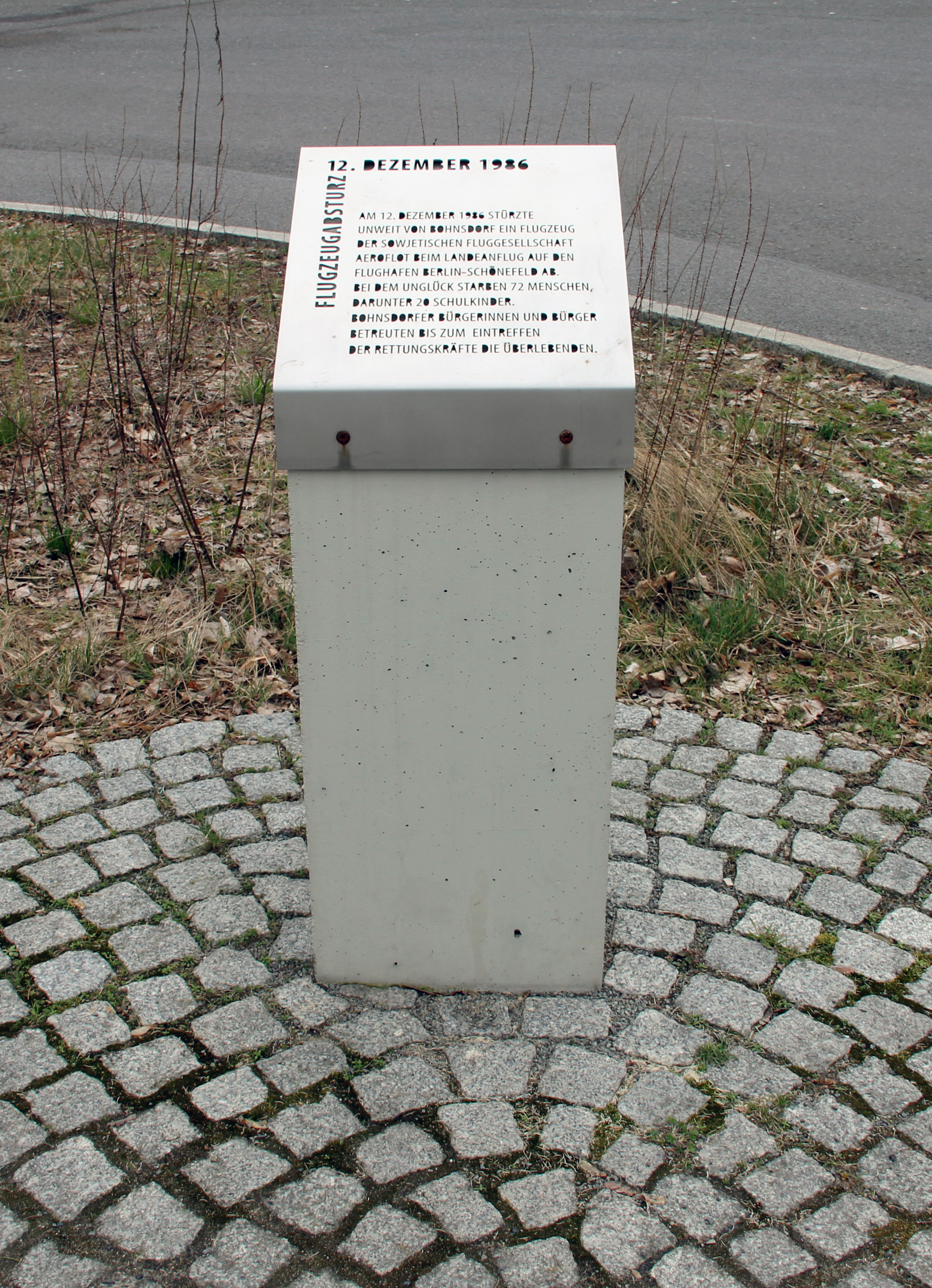 Memorial plaque, Flugzeugabsturz, Waltersdorfer Straße/Waldstraße, Berlin-Bohnsdorf, Deutschland